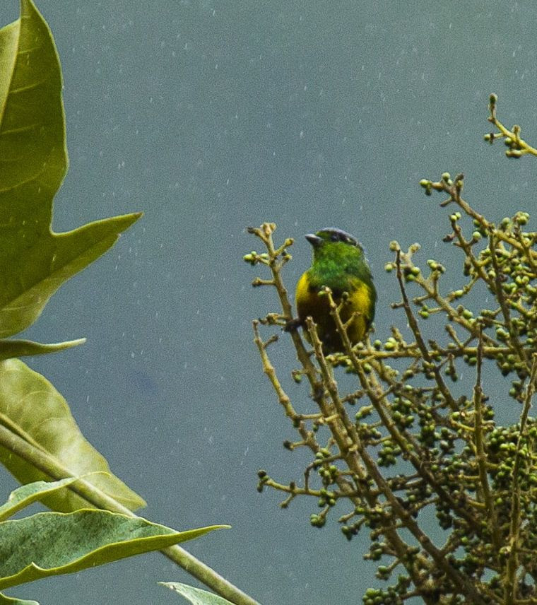 Chestnut-breasted Chlorophonia (Chestnut-breasted Chlorophonia), Ecuador, cropped from original